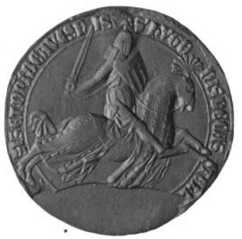 Hugh II, Count of Blois